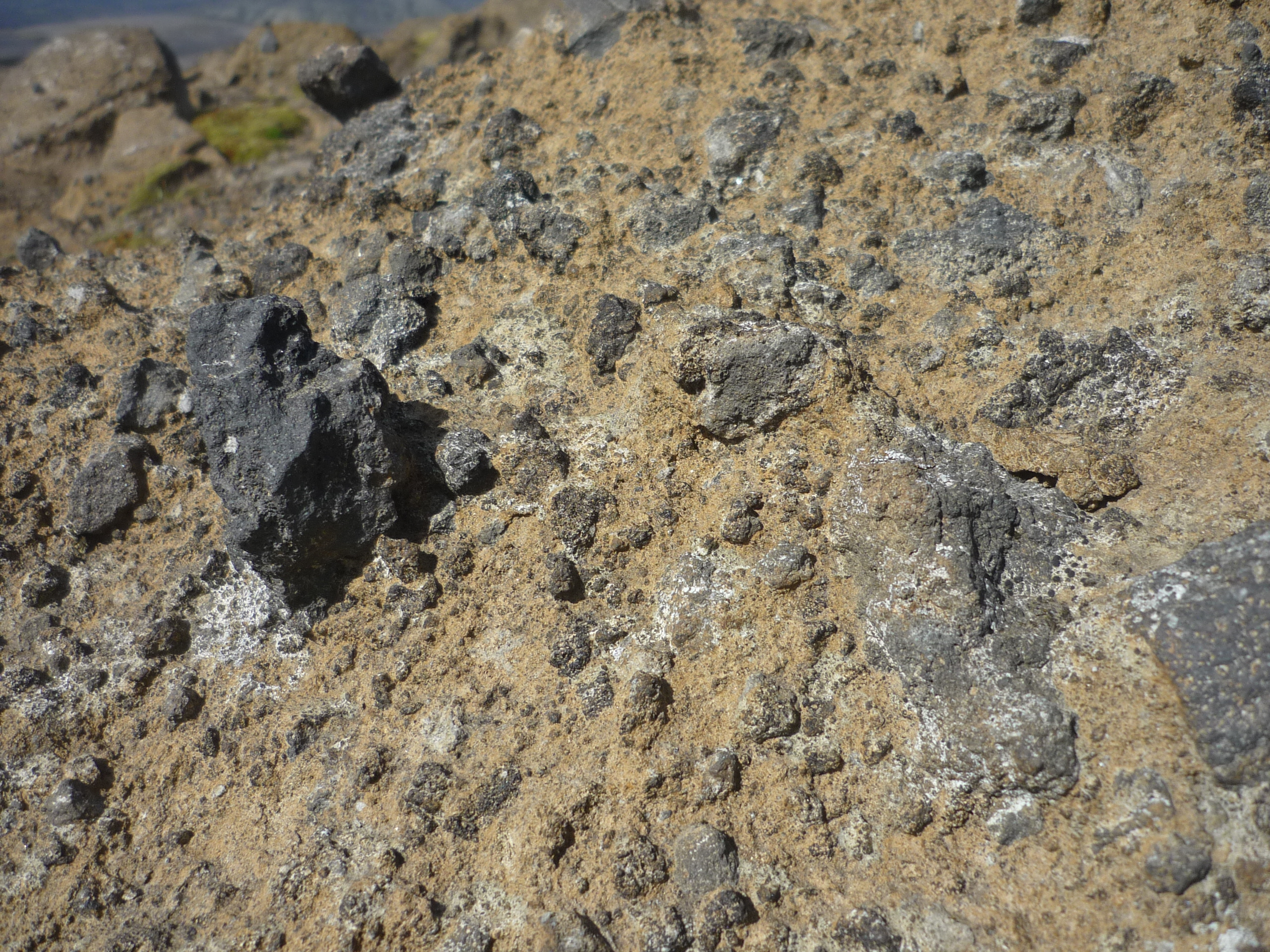 Hyaloclastite on Laki, Iceland